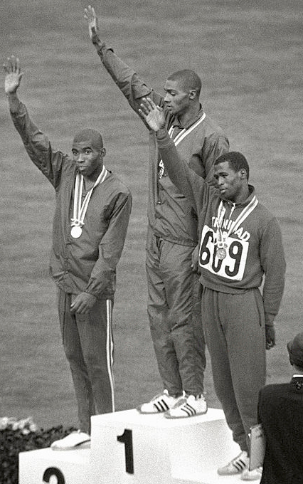 The American sprinters Henry Carr and Paul Drayton along with Trinidadian sprinter Edwin Roberts greeting with a wave during the 200-metre finals award ceremony at the Tokyo Olympics. Tokyo, October 1964